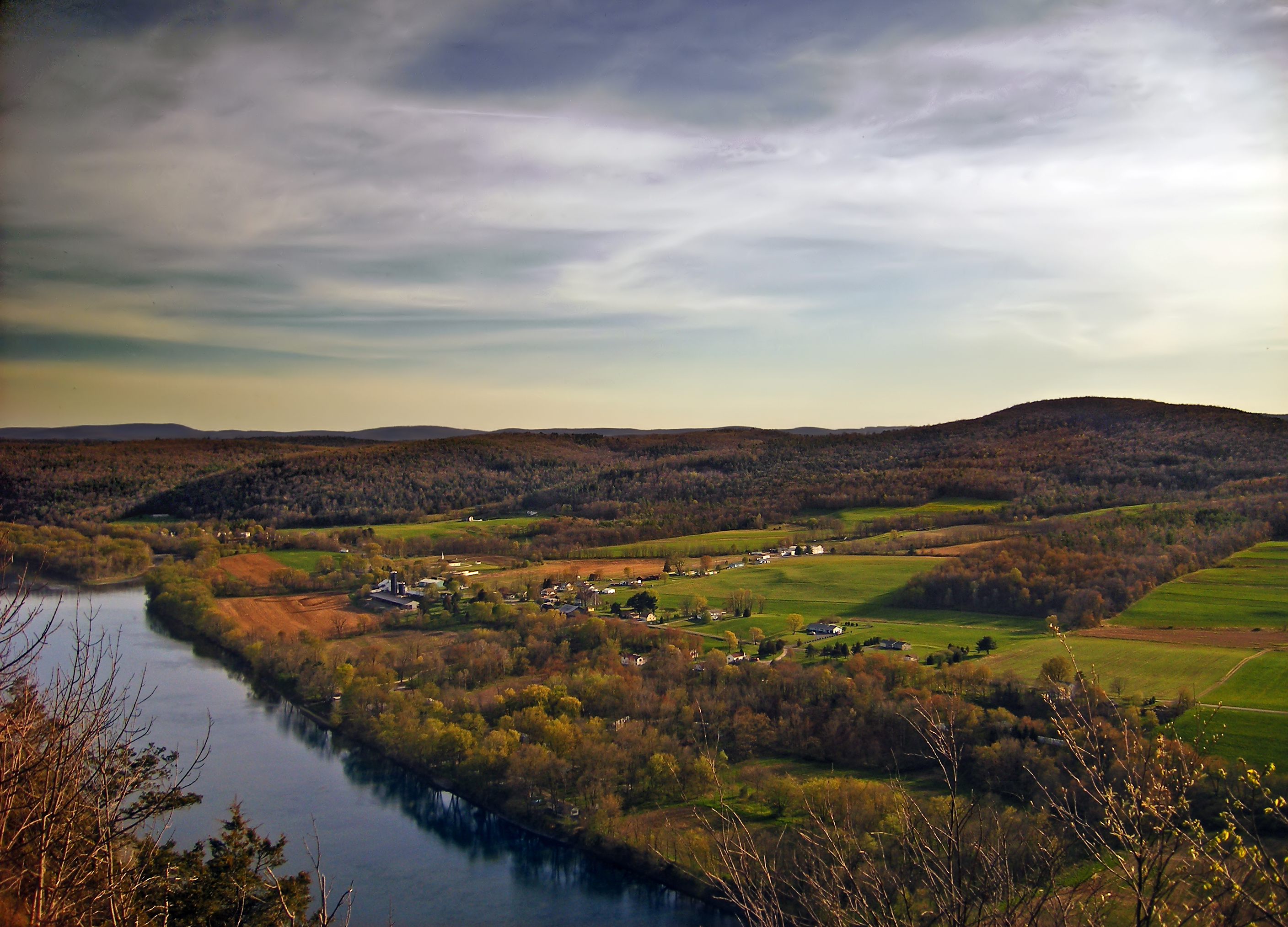 Late-day view from Wyalusing Rocks, Bradford County, along US Route 6.